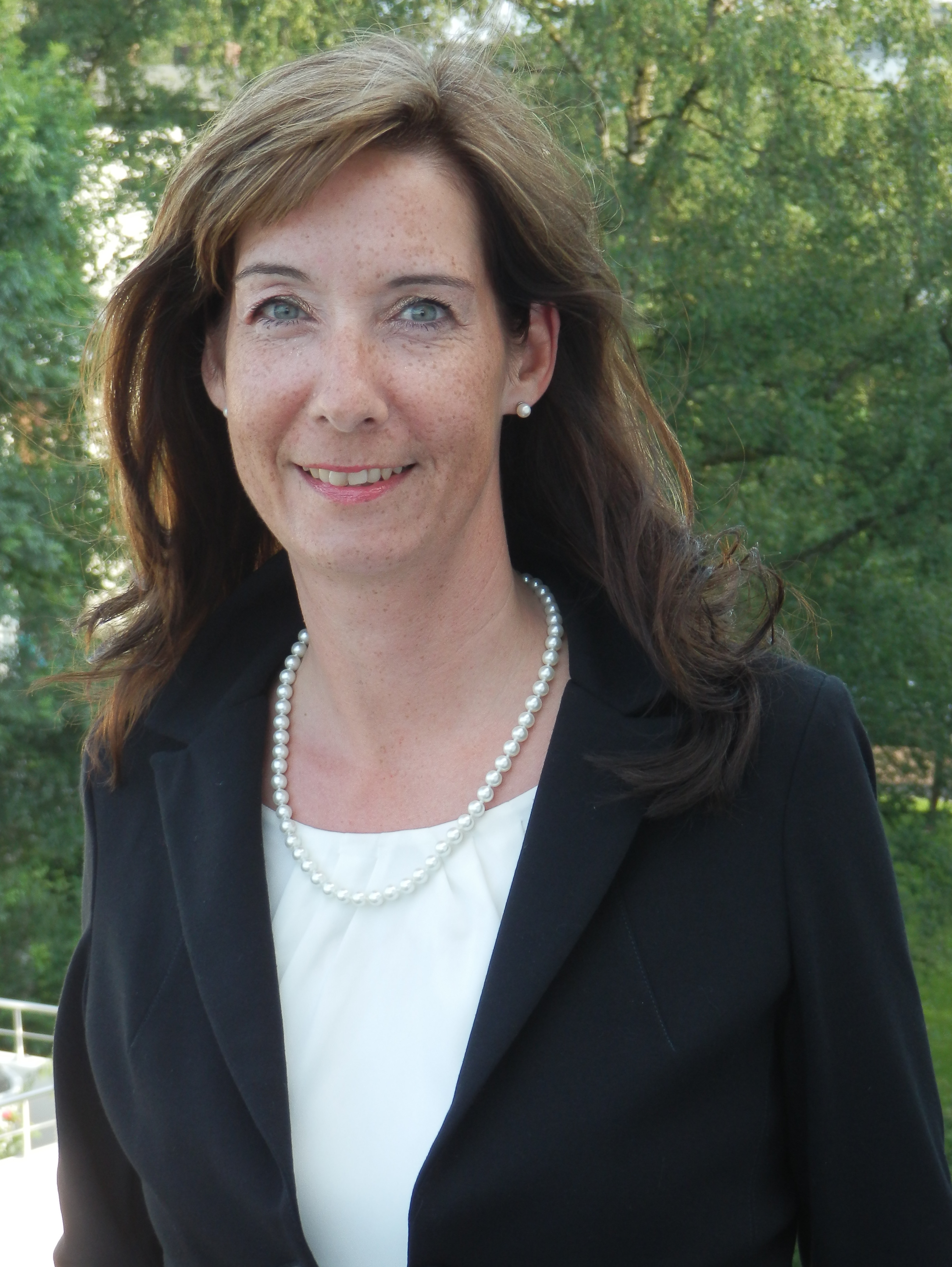 Portrait of Ms Cornelia Holsten, director of the "Bremische Landesmedienanstalt".